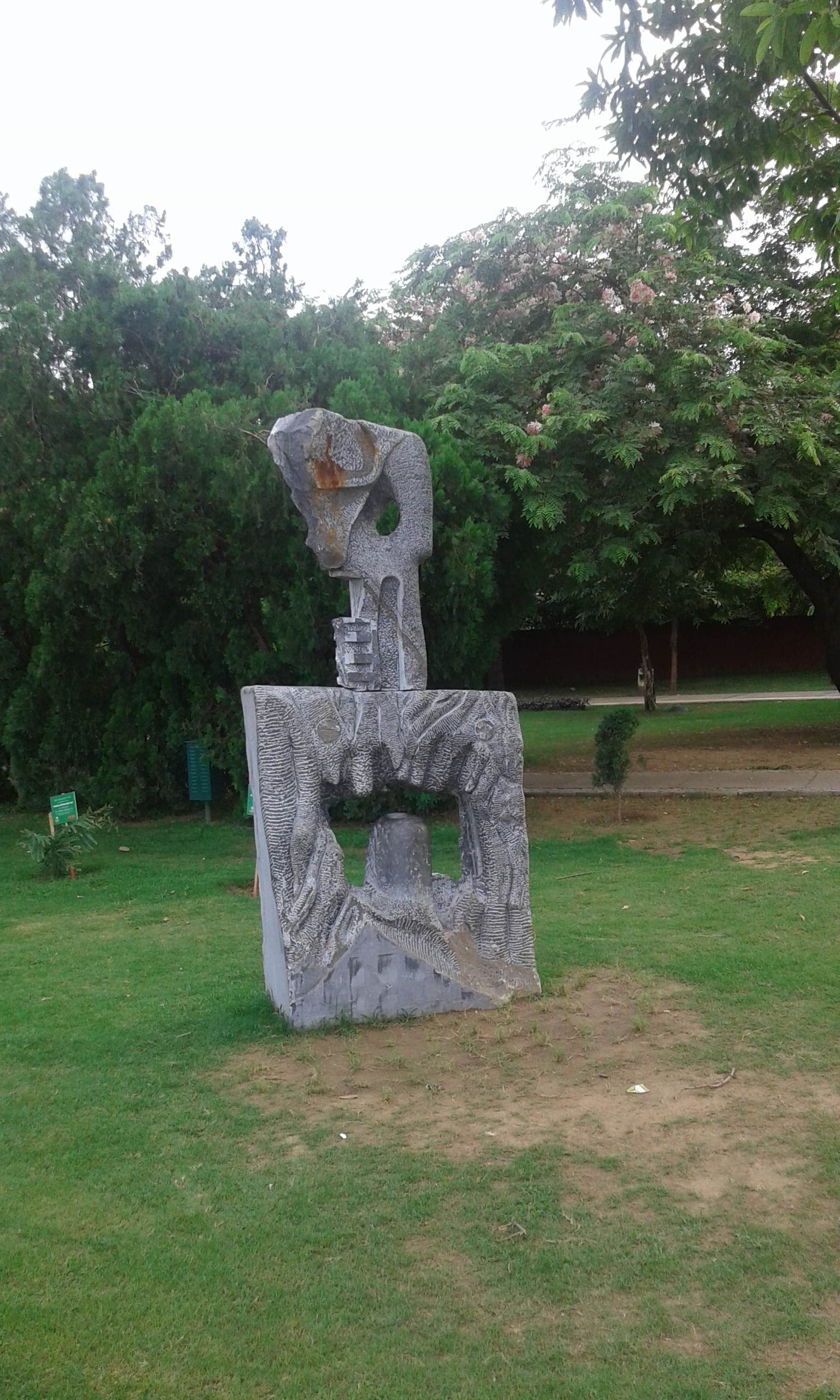 A rock statue near Sukhna lake